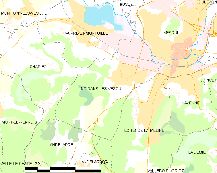 Map of French municipality